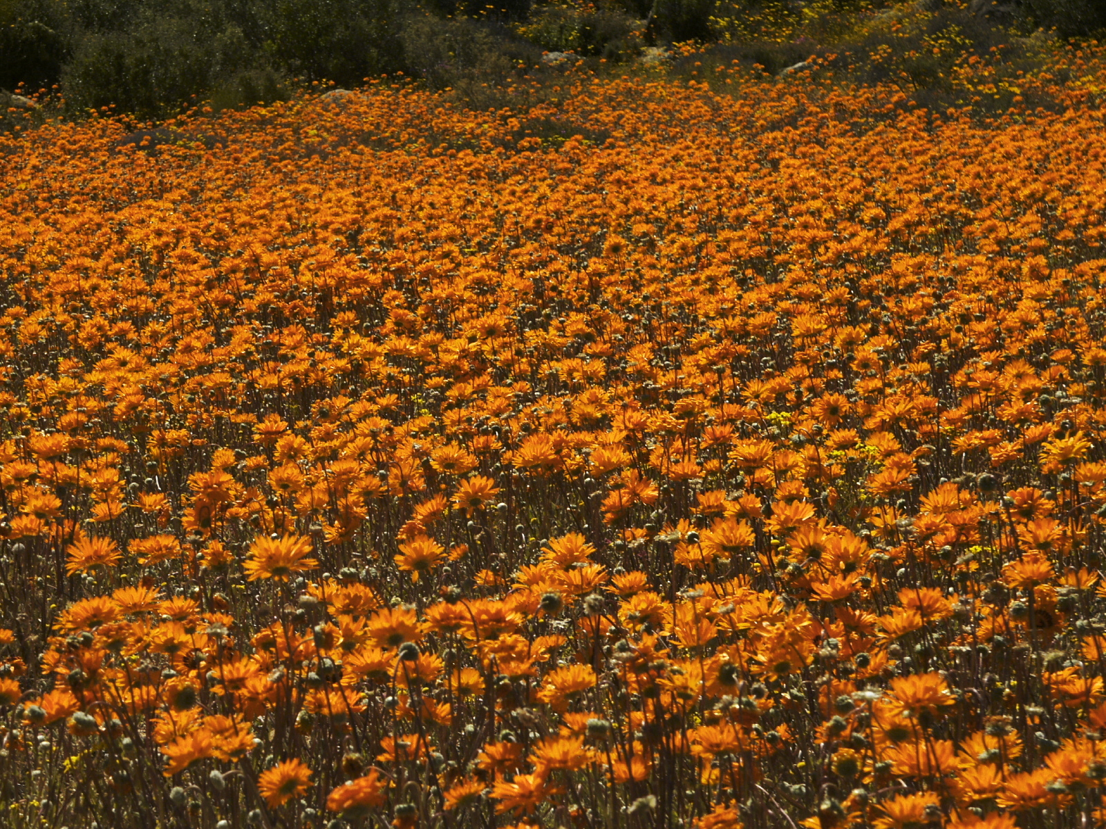 Daisys, Desert in the spring, flowering Desert, Namaqualand, Goegap Nature Reserve, Northern Cape, South Africa